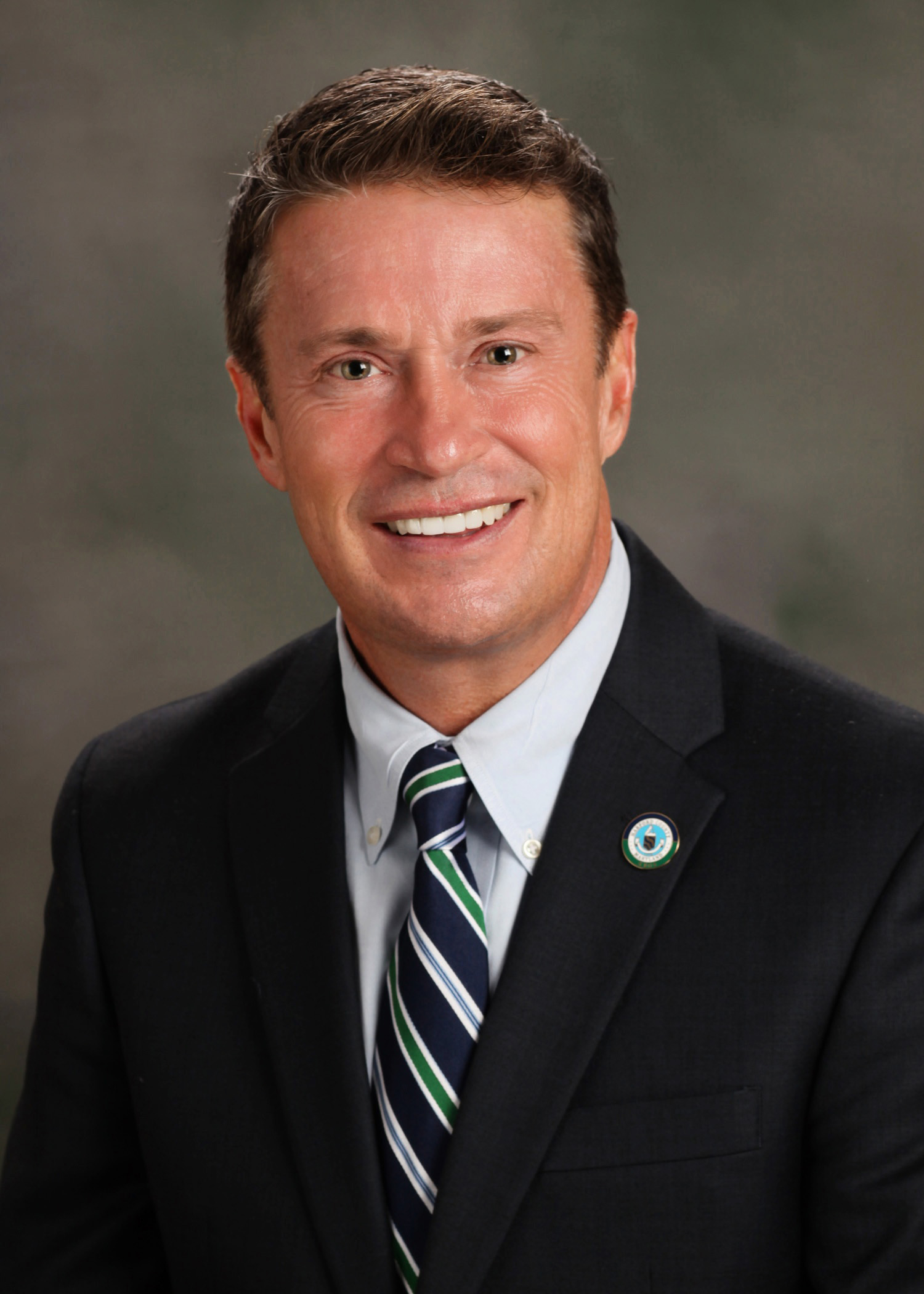 Barry Glassman, County Executive, Harford County, Maryland, elected 2014. Maryland State Senator, 2008-2014.